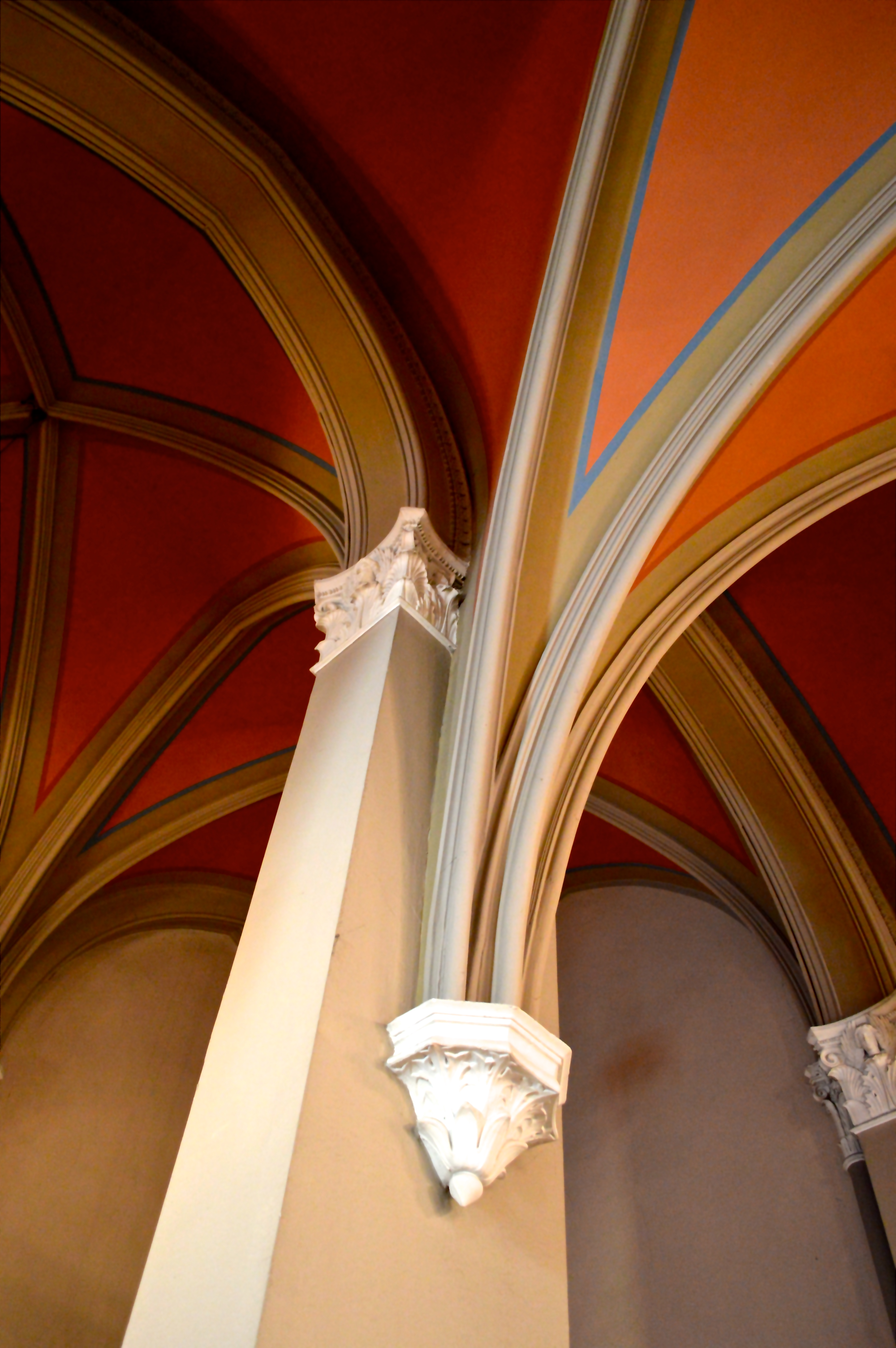 Interior detail, where vaults meet a column